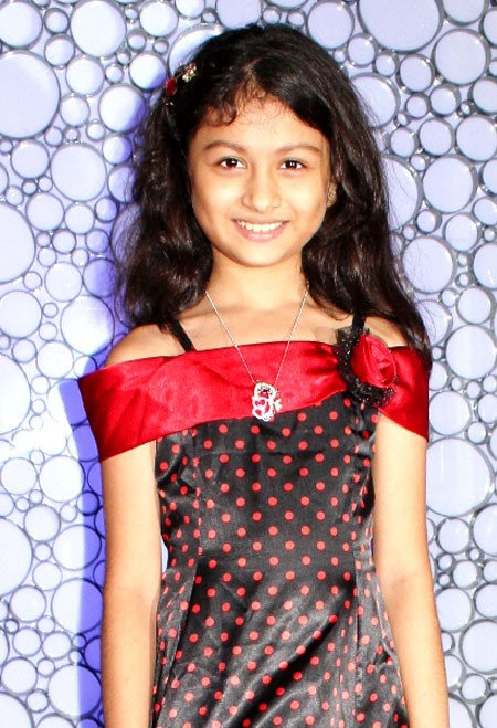 Saniya Anklesaria at launch of ‘Life’s Good’